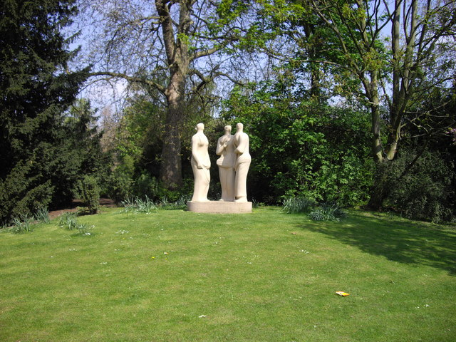 Henry Moore’s Three Standing Figures Battersea Park